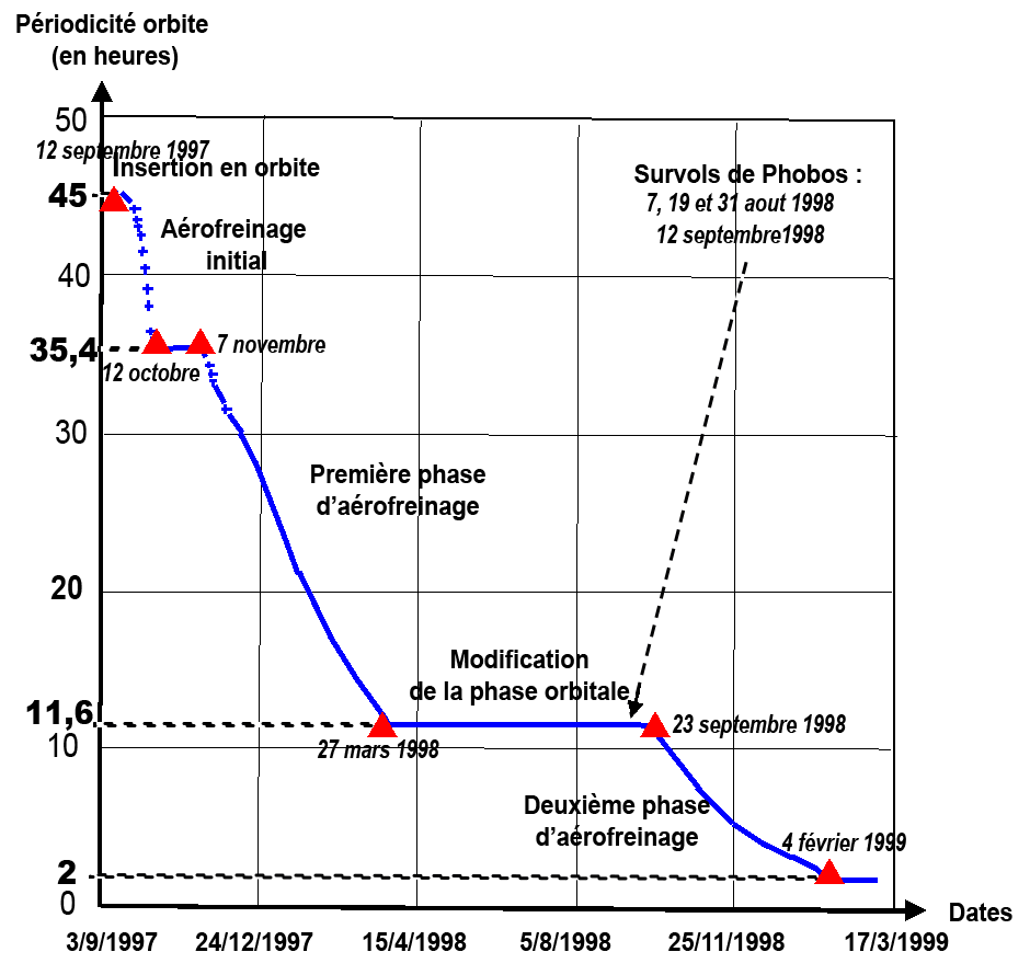 Mars Global Surveyor-aerobraking-phase (french labels)